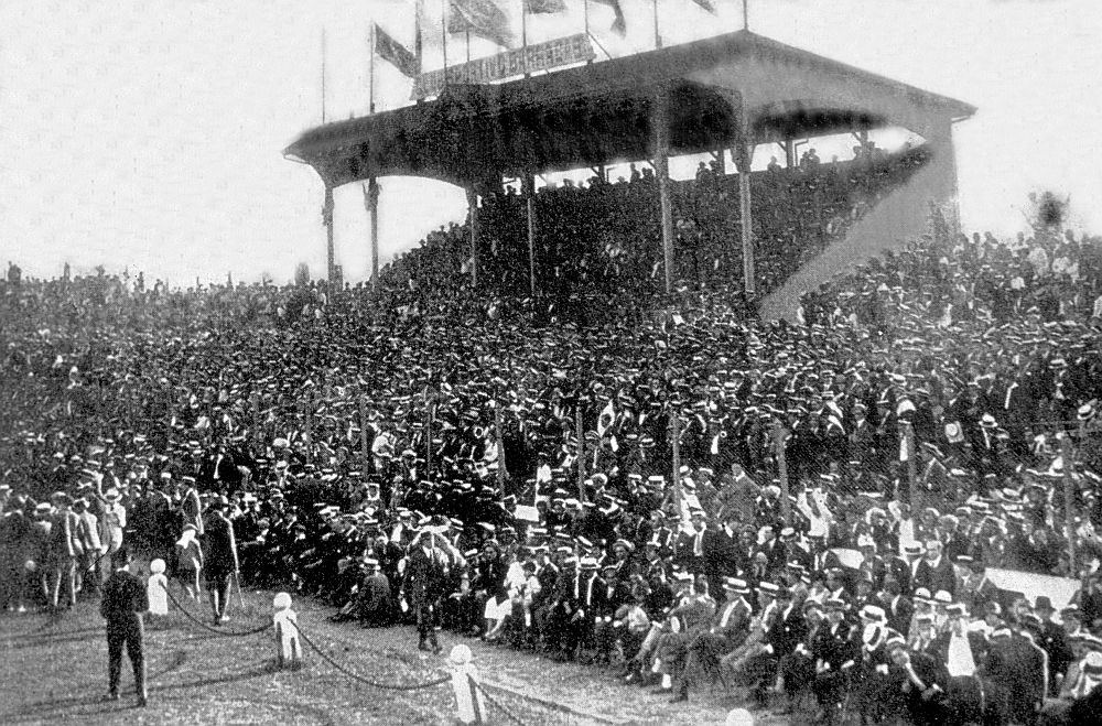 Club Sportivo Barracas stadium during a football match.